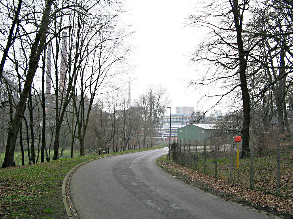 Bomlitz valley with oldest part of Dow Wolff Cellulosics in Bomlitz, Lower Saxony